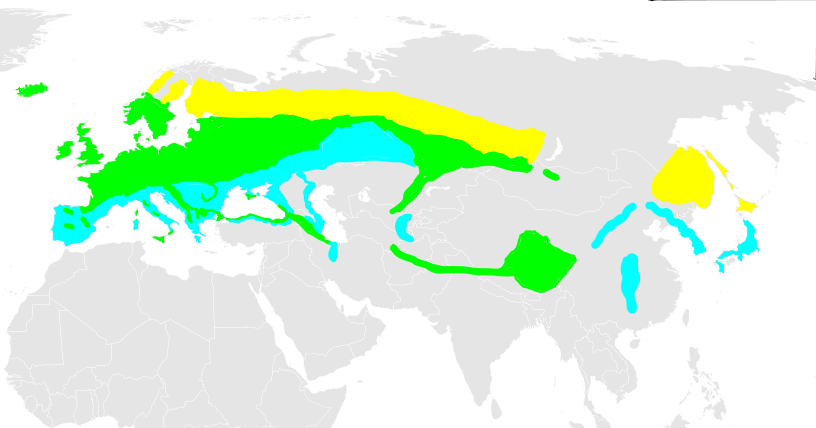 Range map of Regulus regulus Own work based on Commons file File:BlankMap-World6.svg. Map data from Mullarney, Killian; Svensson, Lars; Zetterstrom, Dan; Grant, Peter (1999) Collins Bird Guide, London: Collins, p. 236 ISBN: 000219728-6. and Arlott, Norman (2007) Birds of the Palearctic: Passerines, London: Collins, pp. 200 ISBN: 0007147058.